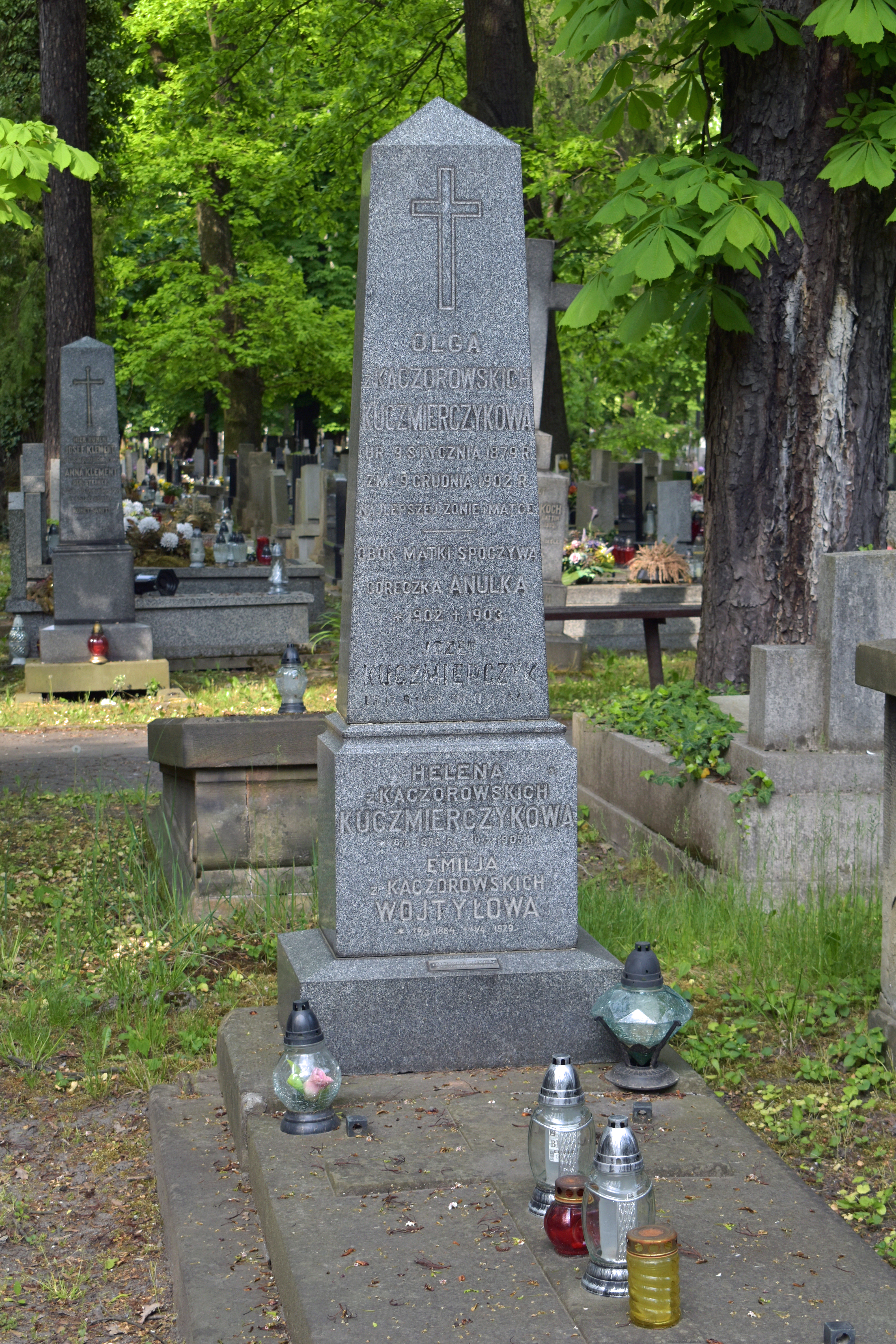 First tomb of Emilia Wojtyła the mother of John Paul II, Rakowicki cemetery, 26 Rakowicka street, Kraków, Poland